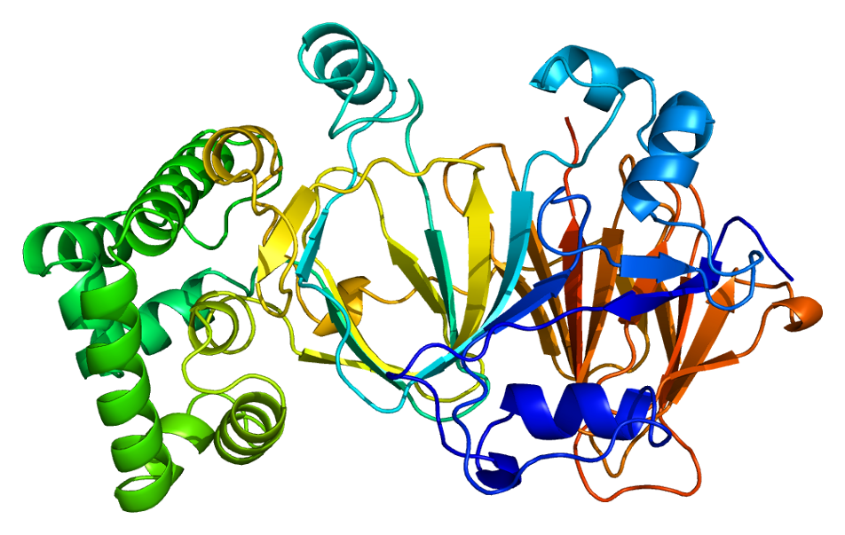 Structure of the CCL5 protein. Based on PyMOL rendering of PDB 1pmi.